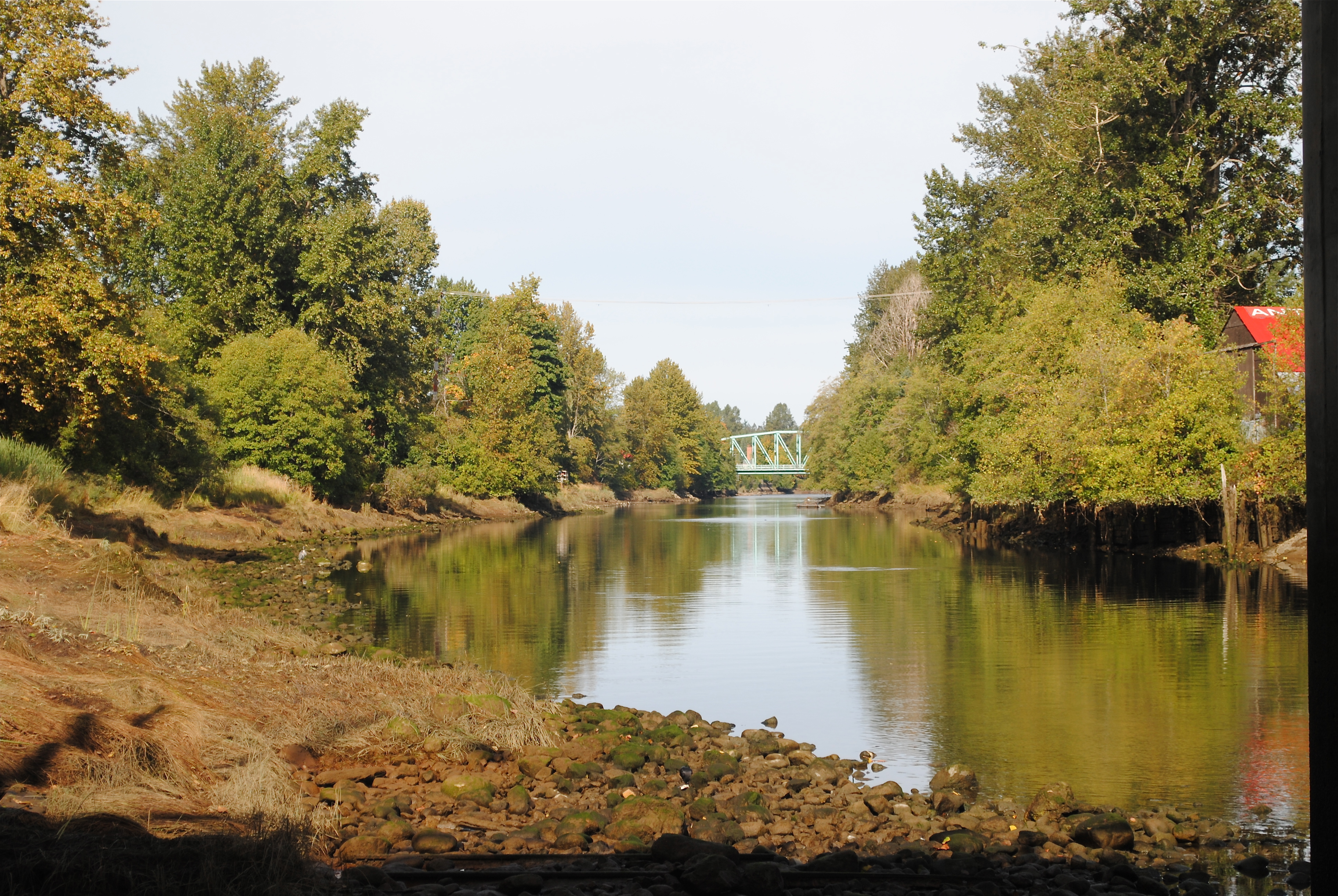 The Courtenay River in Courtenay, BC, Canada. Looking from 17th St. bridge to 5th St. bridge. There is a Heron on the left river bank.